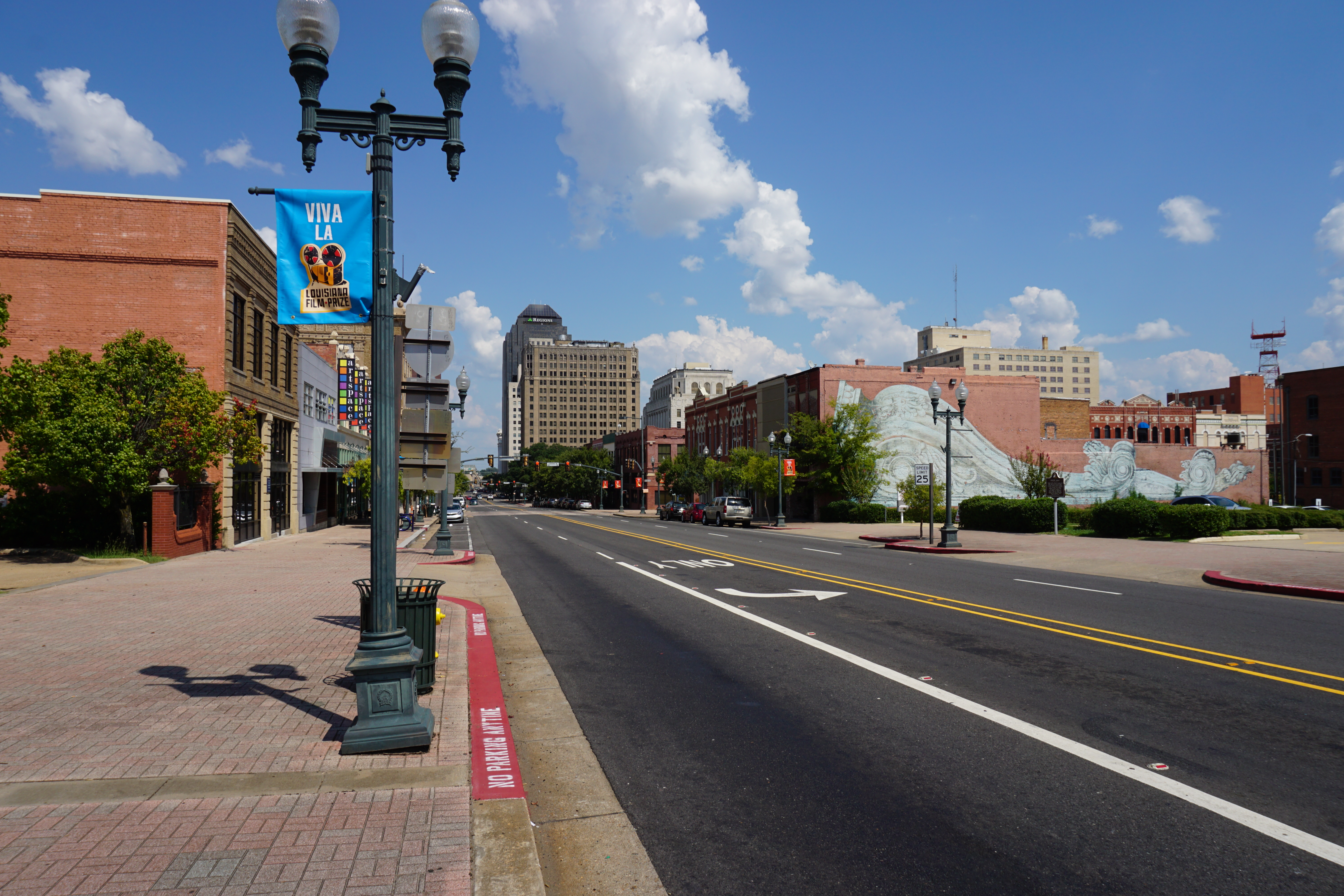 Texas Street in Shreveport, Louisiana (United States).